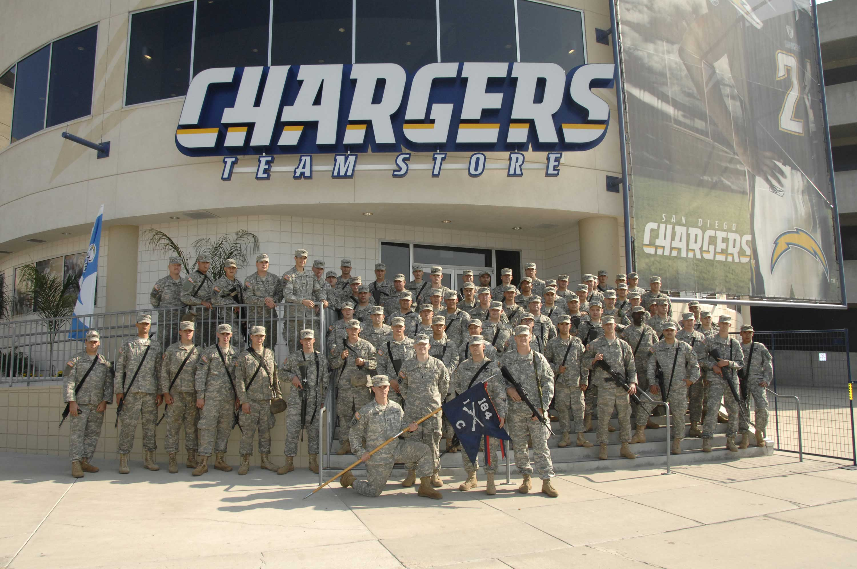 184 Regiment Soldiers pose for a photo at Qualcomm Stadium